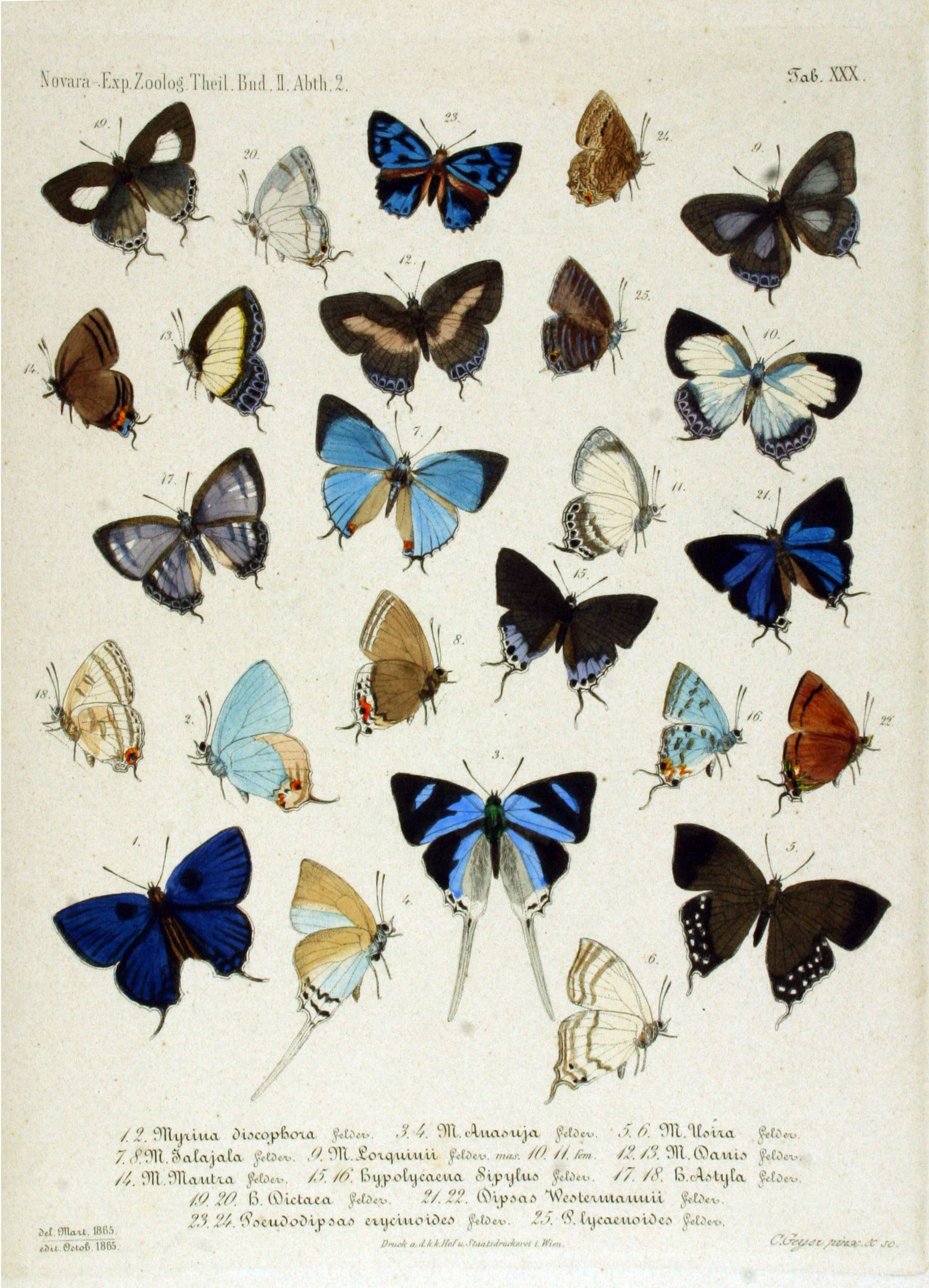 Reise der Österreichischen Fregatte Novara um die Erde in den Jahren 1857, 1858, 1859 unter den Befehlen des Commodore B. von Wüllerstorf-Urbair. (1864) Zoologischer Theil. 2. Band. Zweite Abteilung: Lepidoptera. Tafel XXX. Myrina discophora accepted name Drina discophora (C. & R. Felder, 1862) Myrina anasuja accepted name Jacoona anasuja (C. & R. Felder, 1865) Myrina usira synonym of Drina donina (Hewitson, 1865) Myrina jalajala accepted name Tajuria jalajala (C. & R. Felder, 1865) Myrina lorquinii accepted name Hypochlorosis lorquinii (C. Felder & R. Felder, 1865) Myrina danis accepted name Hypolycaena danis (C. & R. Felder, [1865]) Myrina mantra accepted name Tajuria mantra Felder & Felder 1860 Hypolycaena sipylus accepted name Hypolycaena sipylus Felder, 1860 Hypolycaena astyla accepted name Hypothecla astyla (C. Felder & R. Felder, 1862). Hypolycaena dictaea accepted name Hypolycaena dictaea Felder 1865 Dipsas westermannii accepted name Remelana jangala westermannii (C.& R.Felder,[1865]) Pseudodipsas erycinoides accepted name Poritia erycinoides (C. Felder & R. Felder, 1865) Pseudodipsas lycaenoides accepted name Anthene lycaenoides (Felder, 1860)